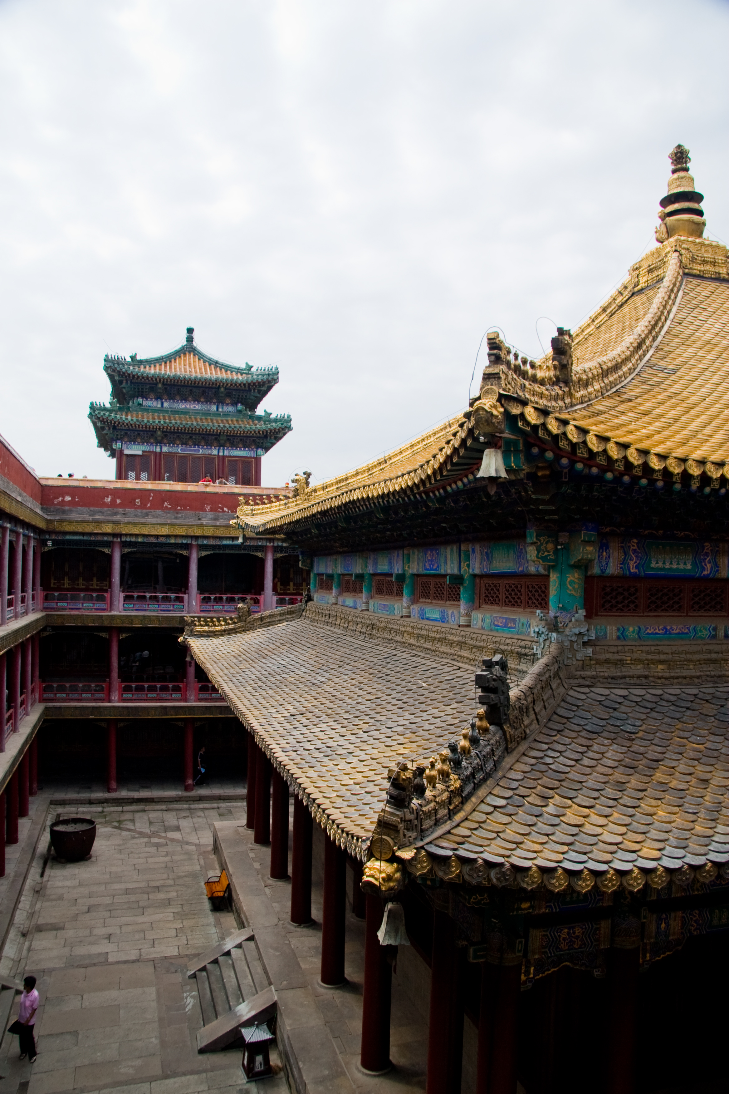 The main hall of the Putuo Zongcheng Temple, The golden rooftop of Wanfaguiyi Hall.